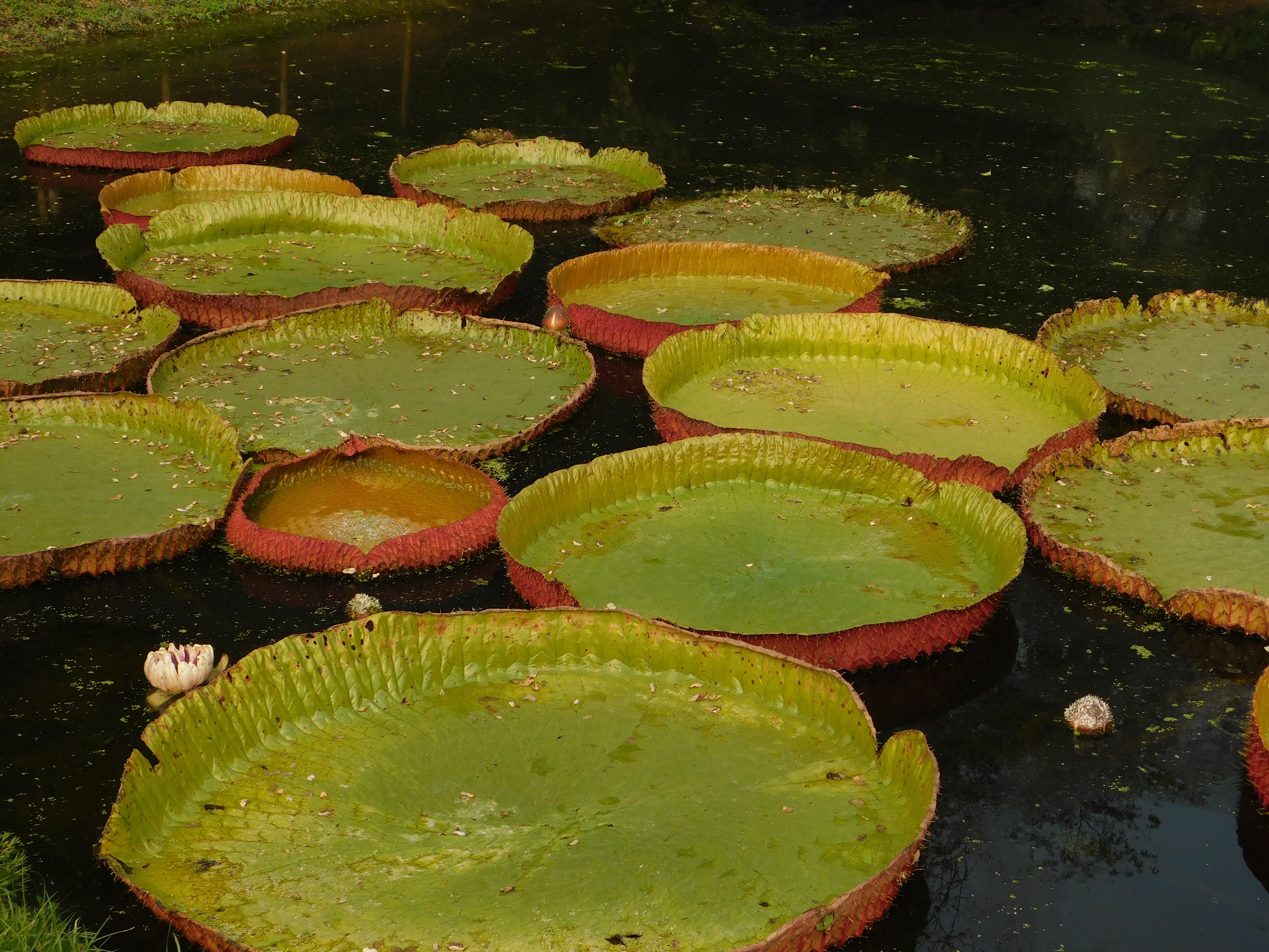 Greate Water Lilly